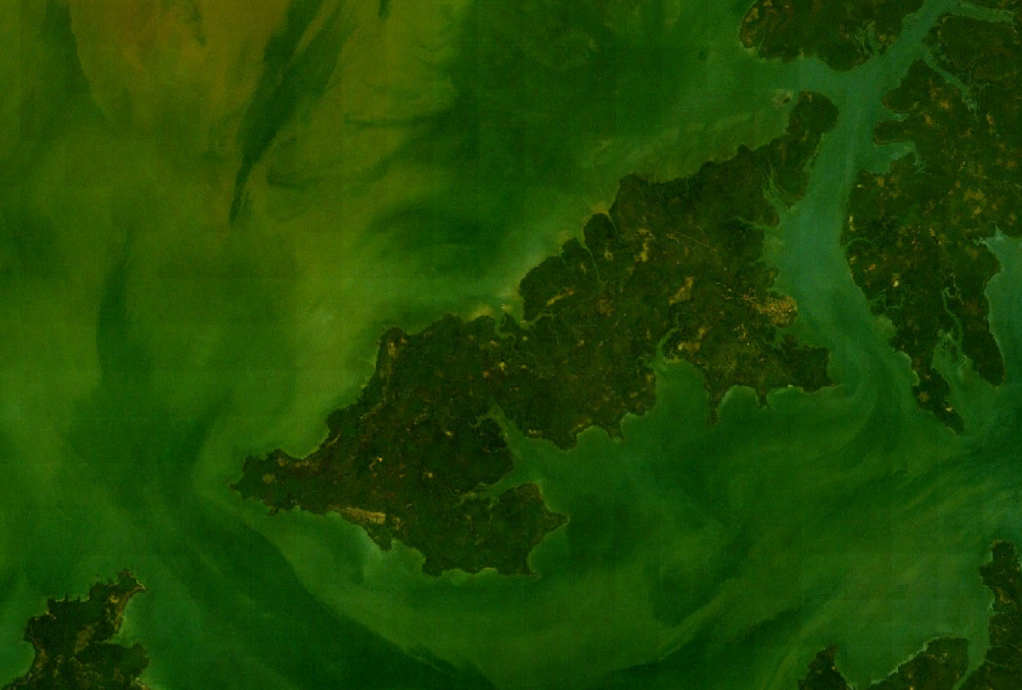 Bolama Island, Bijagos